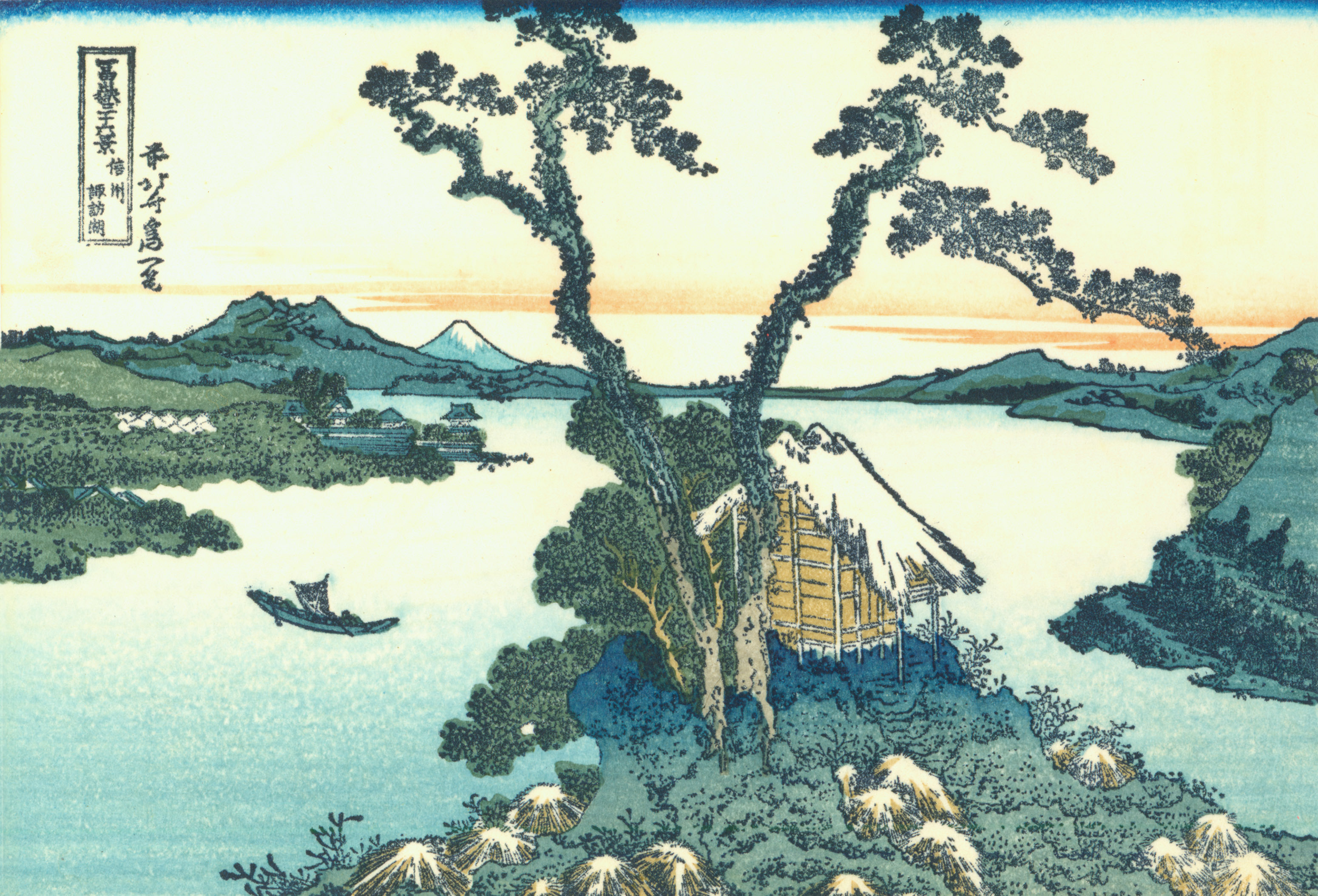 Part of the series Thirty-six Views of Mount Fuji, no. 44, 8th additional woodcut.